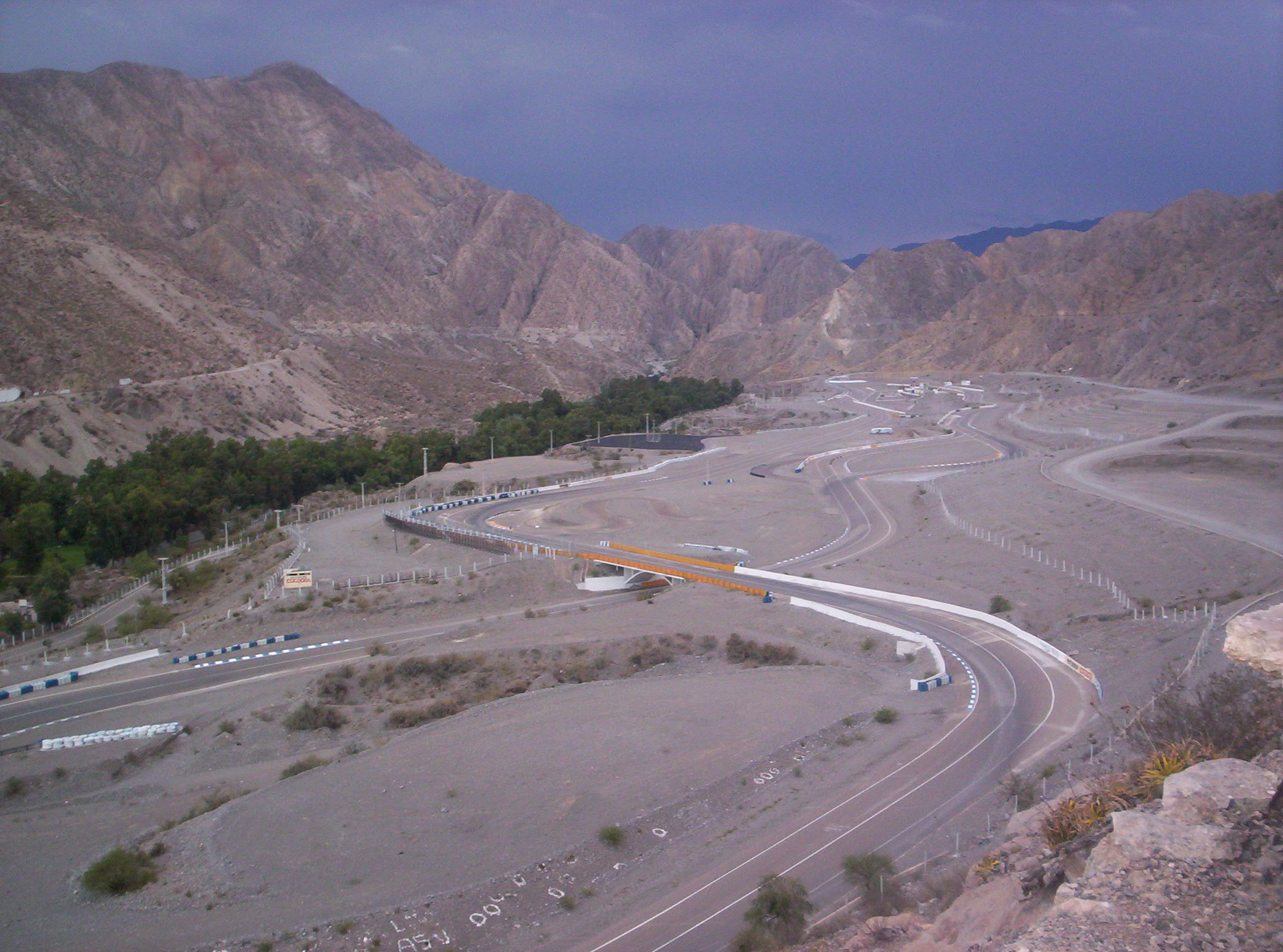 Photograph of a view of the Quebrada of Zonda and autódromo in Zonda Eduardo Copello in the department Rivadavia San Juan Argentina